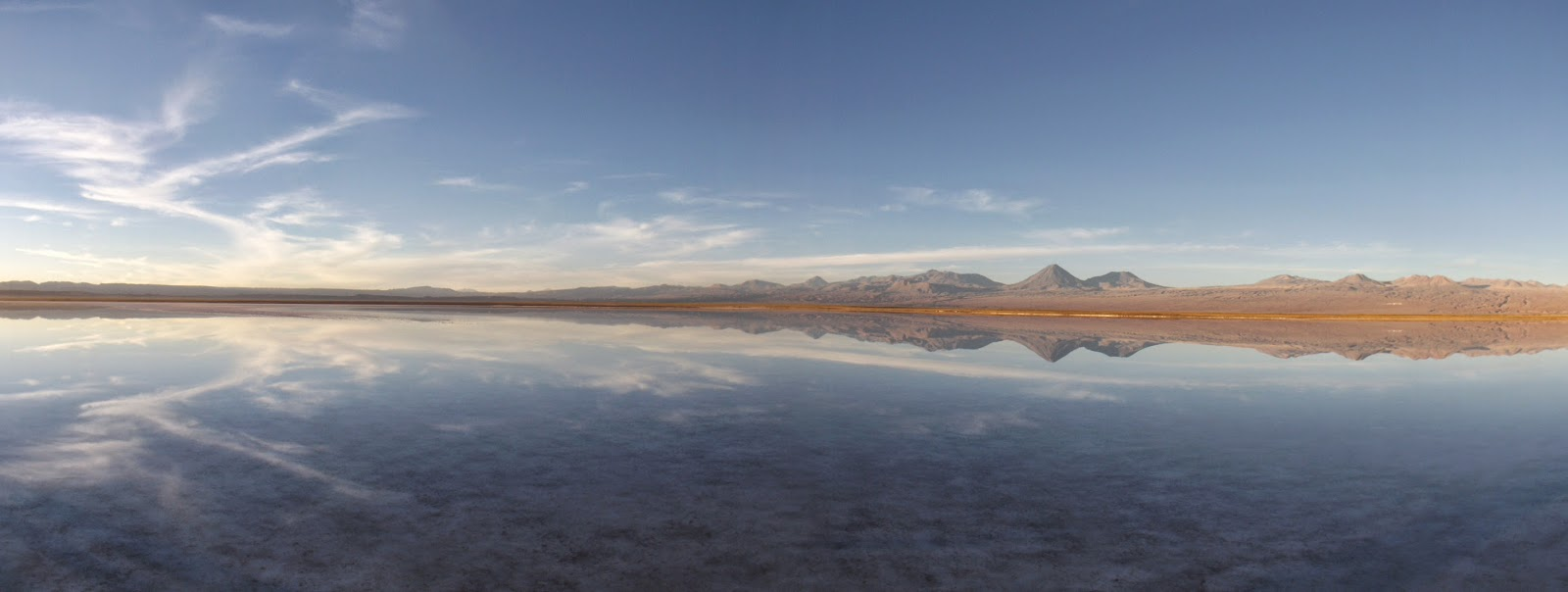 Mirror in San Pedro De Atacama (Chile)